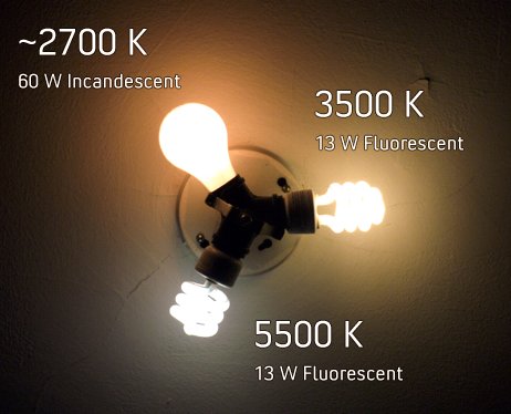 Comparison of a standard 60 watt (W) frosted incandescent lamp with a color temperature of approximately 2700 kelvin (K), a 13 W 3500 K compact fluorescent lamp, and a 13 W 5500 K compact fluorescent lamp. These lamps are all similar in lumen output, only the color temperature is different.